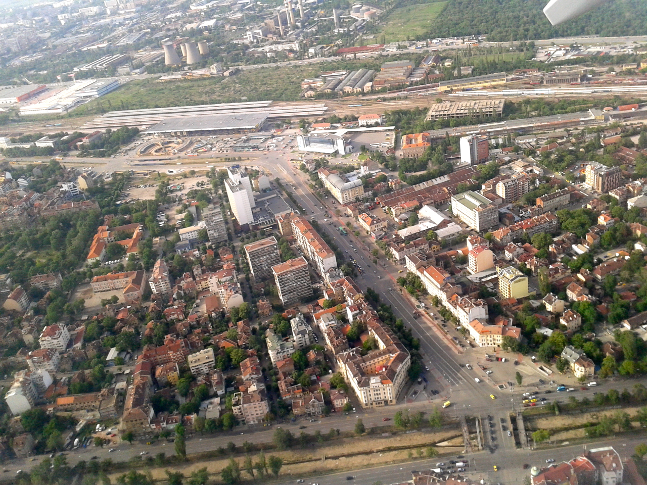 Aerial view of the Main Railway Station and the Central Bus Station with Lion's Bridge (Luvov Most) and 'Maria Luiza' boulevard in Sofia, Bulgaria